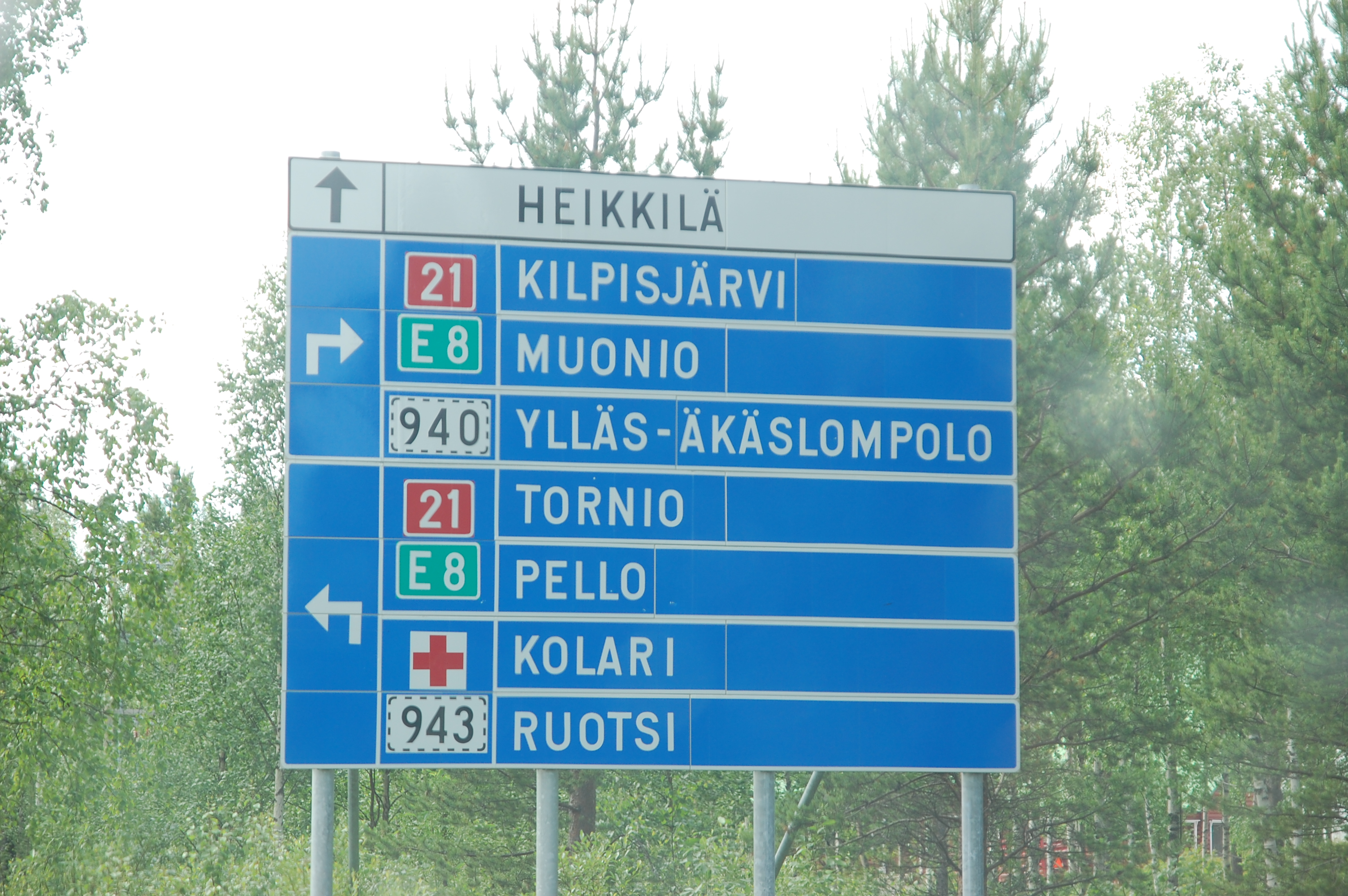 A road sign on the highway 80 in Kolari, Finland.